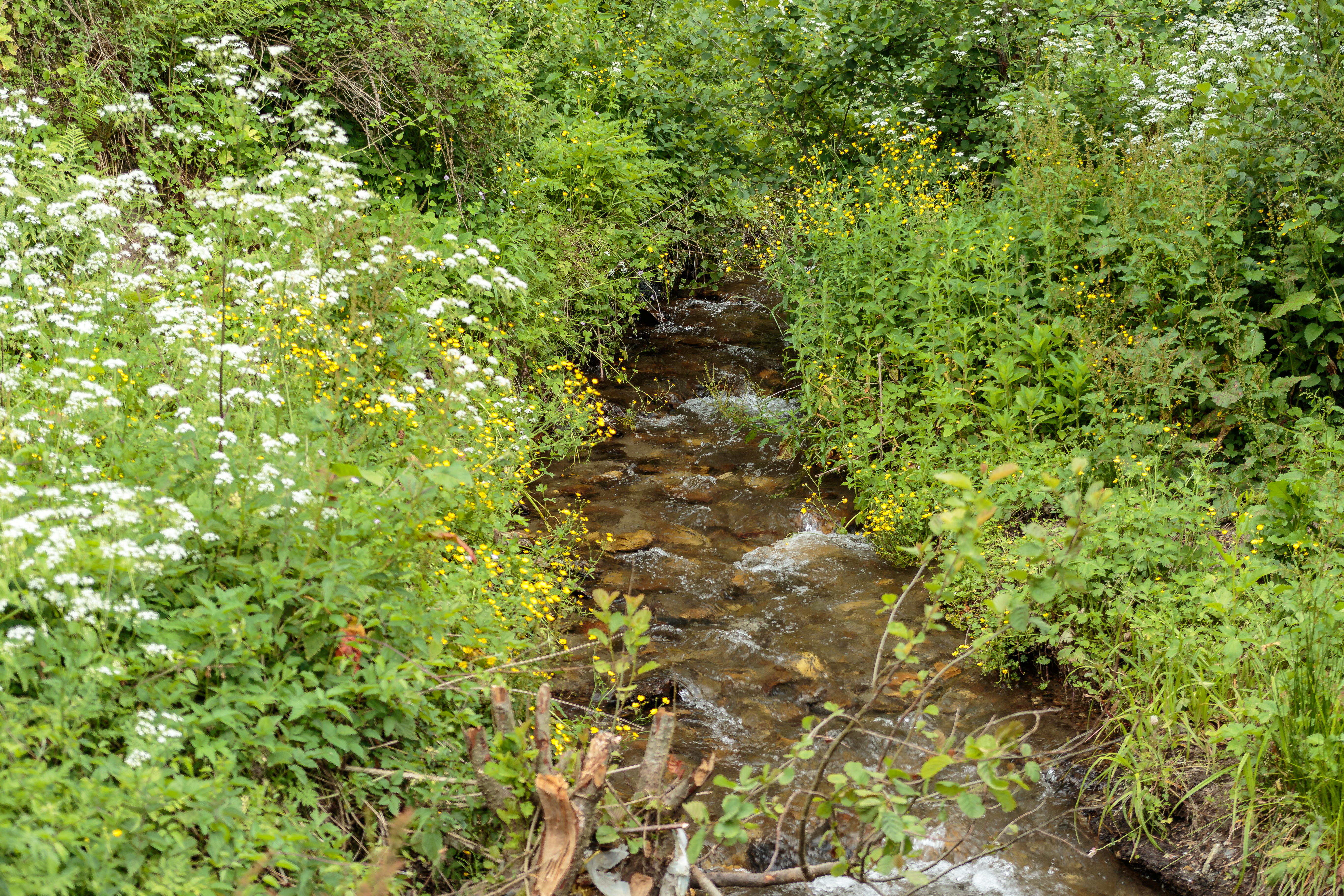 View of small Babinska River in the village Bazernik